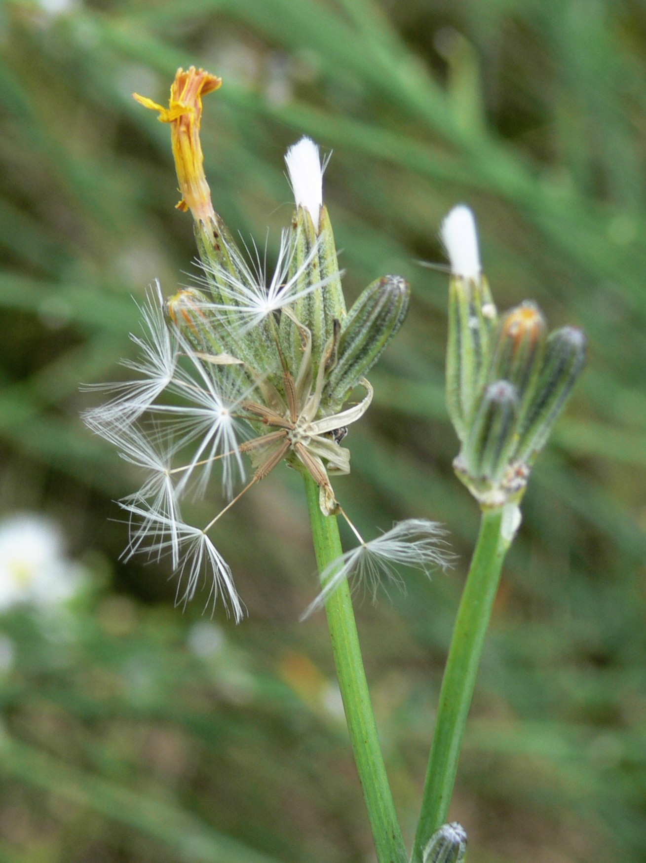 rush skeletonweed